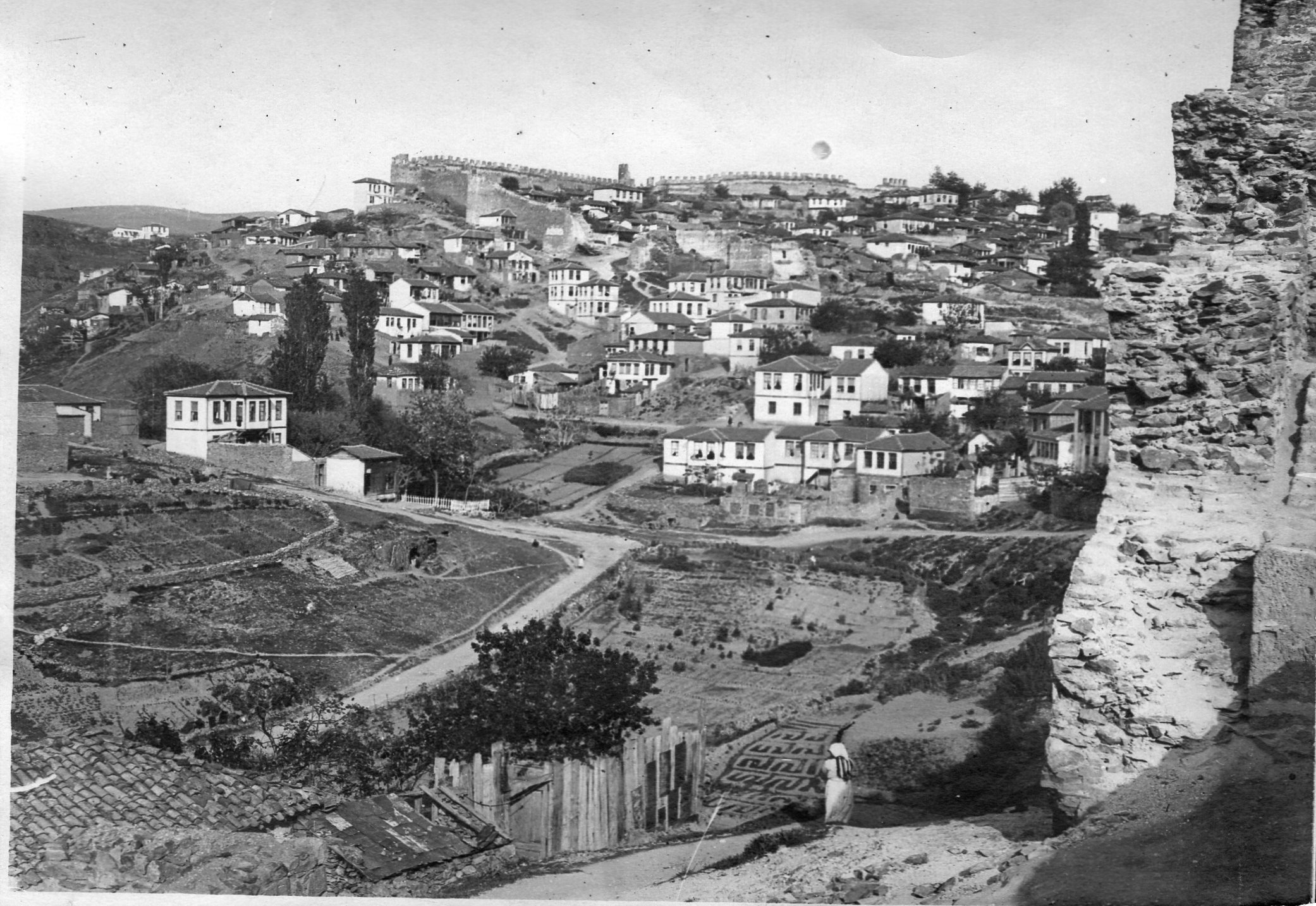 The old photograph of Thessaloniki This media file is produced by Wikipedian in Residence in Category:Wikipedian in Residence at DARM in 2016.